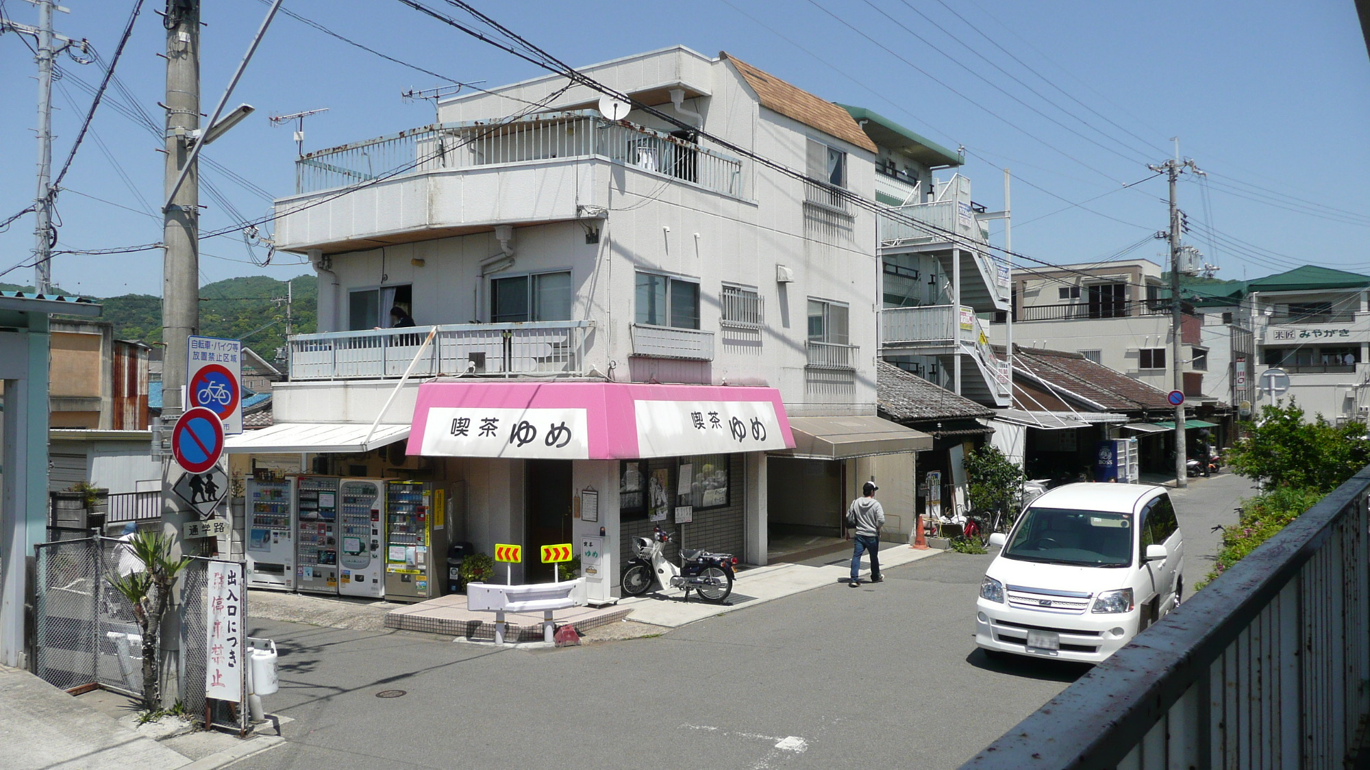 The vicinity of Musota Station (north).